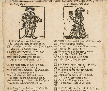 [A lamentable] ballad of the little Musgrove, and the lady Barnet (a part of an ancient broadside, before 1675)